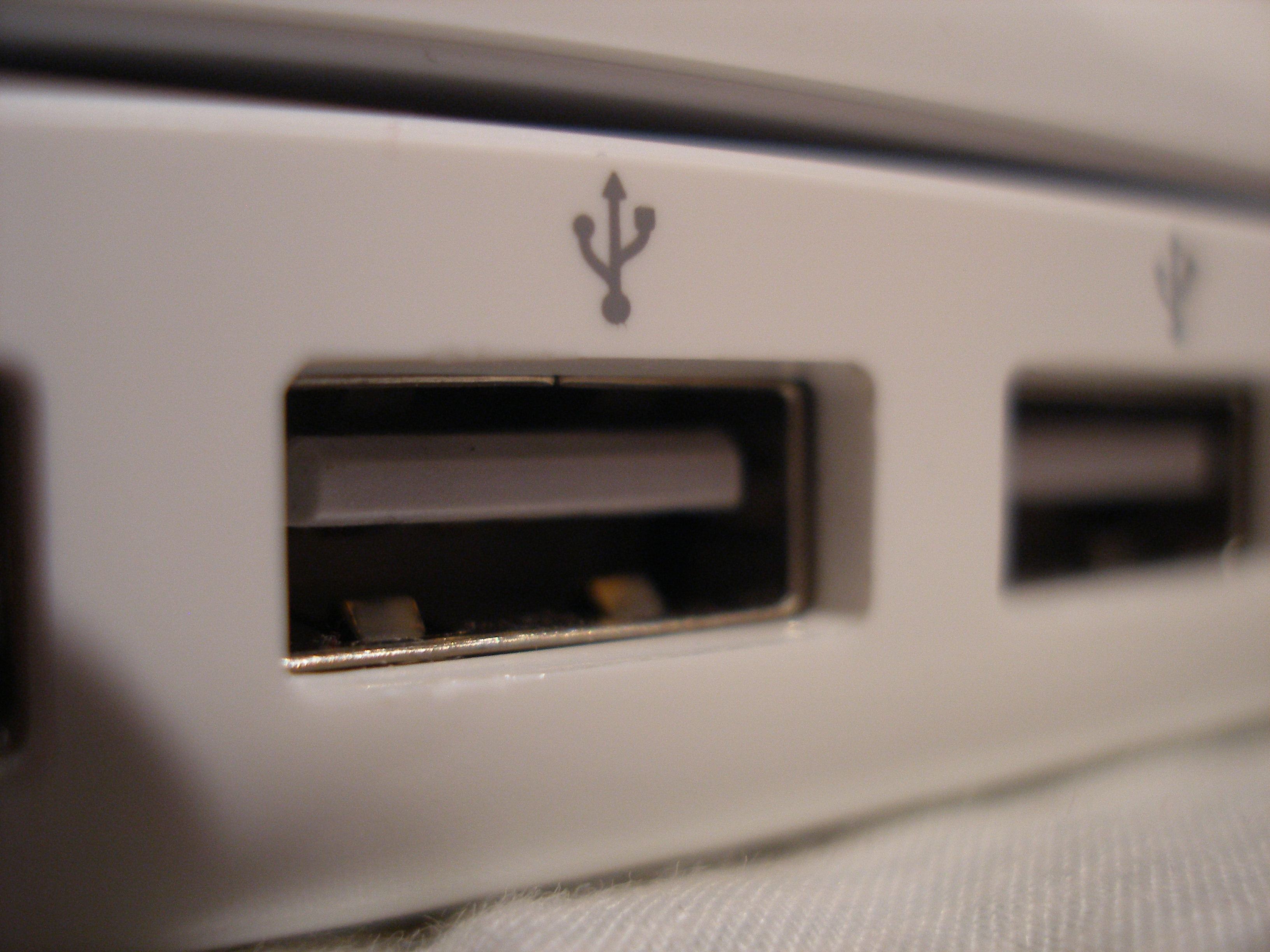 A typical USB connector.